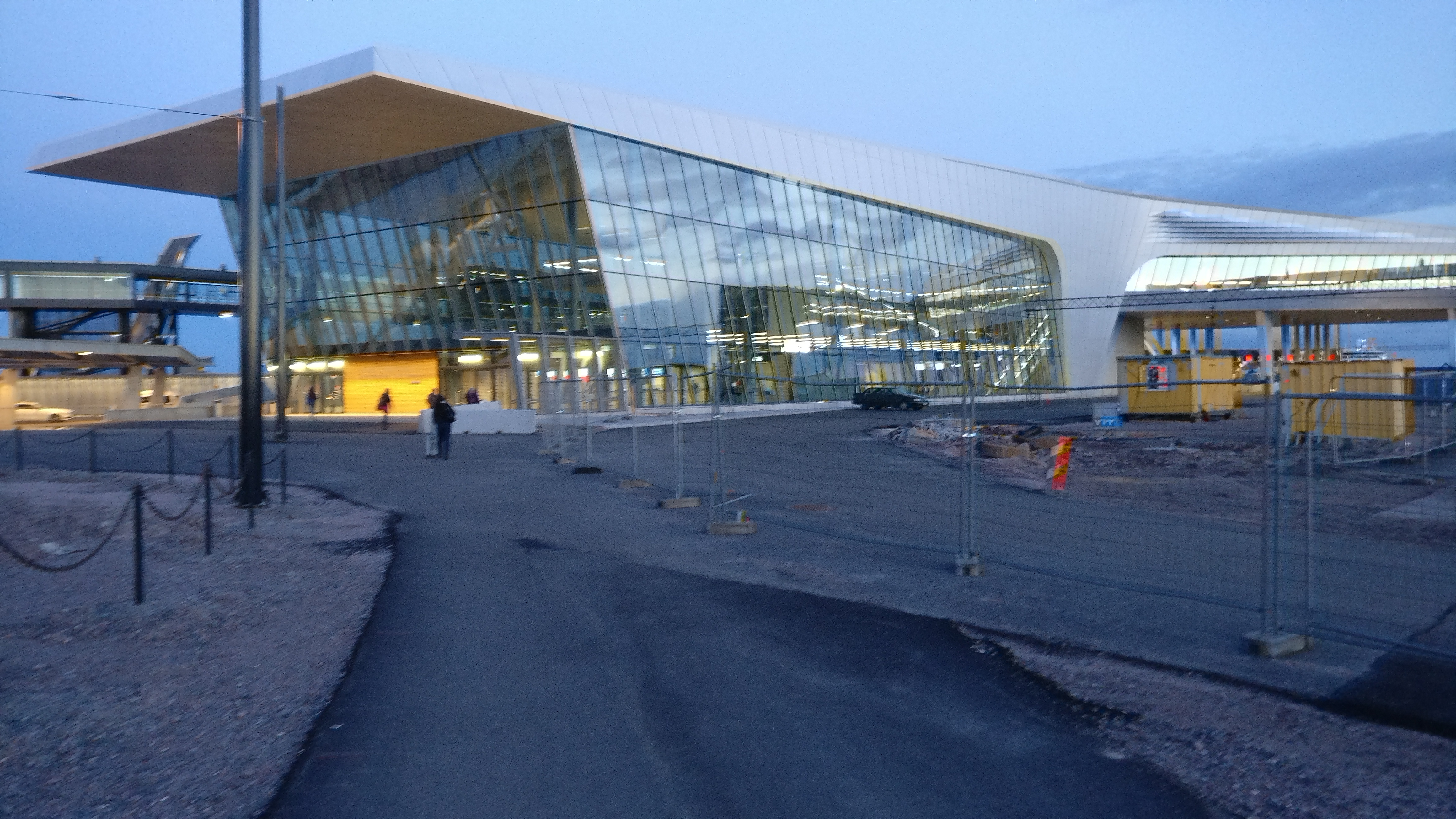 West Terminal 2 in Helsinki